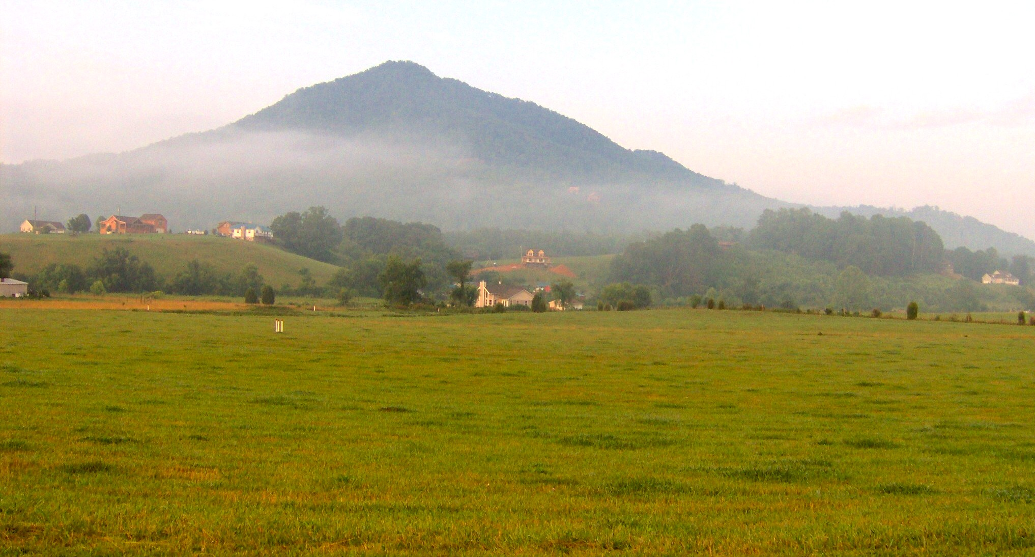 Roundtop Mountain overlooking Wears Valley, Tennessee, in the southeastern United States. Roundtop rises to 3,077 feet (938m) above sea level, and forms the valley's southwestern corner. The boundary of the Great Smoky Mountains National Park traverses Roundtop from east to west. A trail closely follows the park boundary.